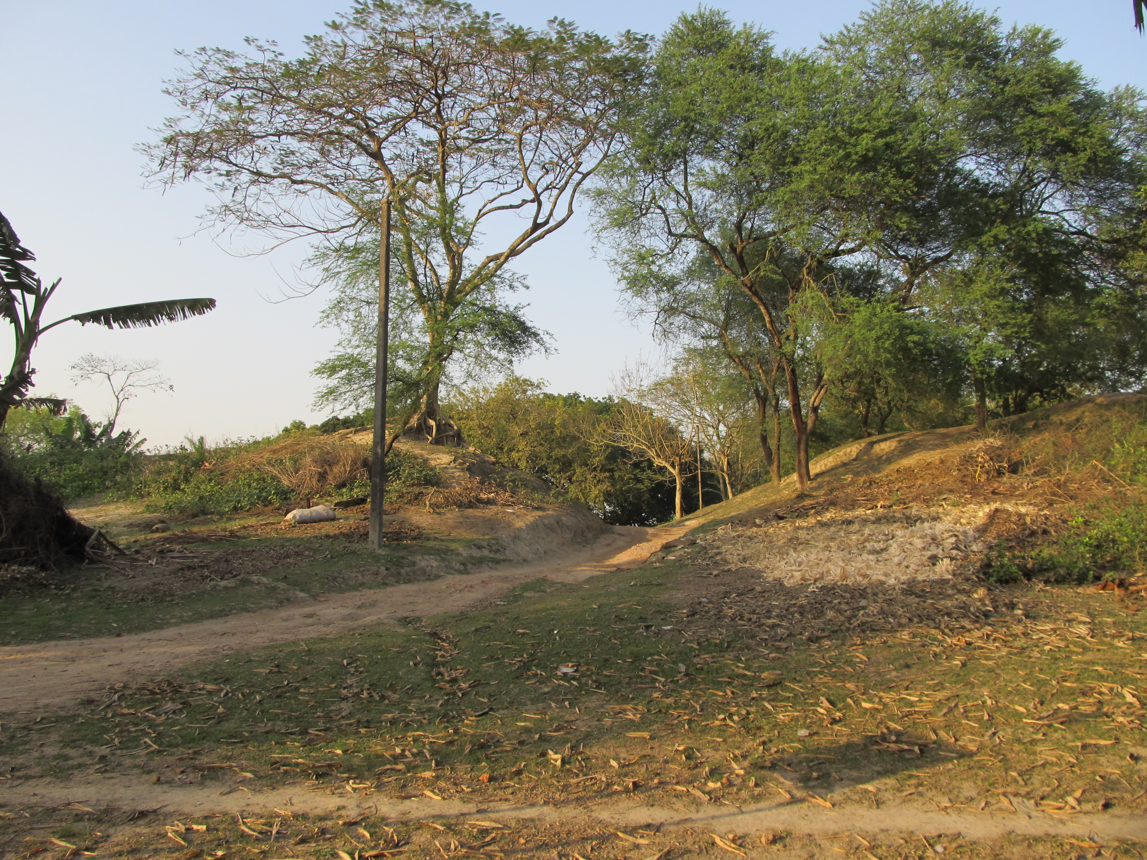 The ancient mound of Chandraketugarh or king Chandraketu's fortified city is located in the district of North 24 Parganas, 38 Km north-east of Calcutta (Kolkata) in West Bengal, India. It falls under the localities Berachampa in the police station of Deganga. The history of Chandraketugarh dates back to almost the 3rd Century B.C., during the pre-Mauryan era. Artifacts suggest that the site was continuously inhabited and flourished through the Sunga-Kushana period, then the Gupta period and finally the Pala-Sena period. From all indications Chandraketugarh was an important urban center, and most probably a port city. It had a high encircled wall with a rampart and a moat. The people were engaged in various crafts and mercantile activities. Although the religious inclinations of the people are unclear, hints of the beginning of some future cults can be traced in the artifacts. Some of the potteries carry inscriptions in Kharoshthi and Brahmi scripts.